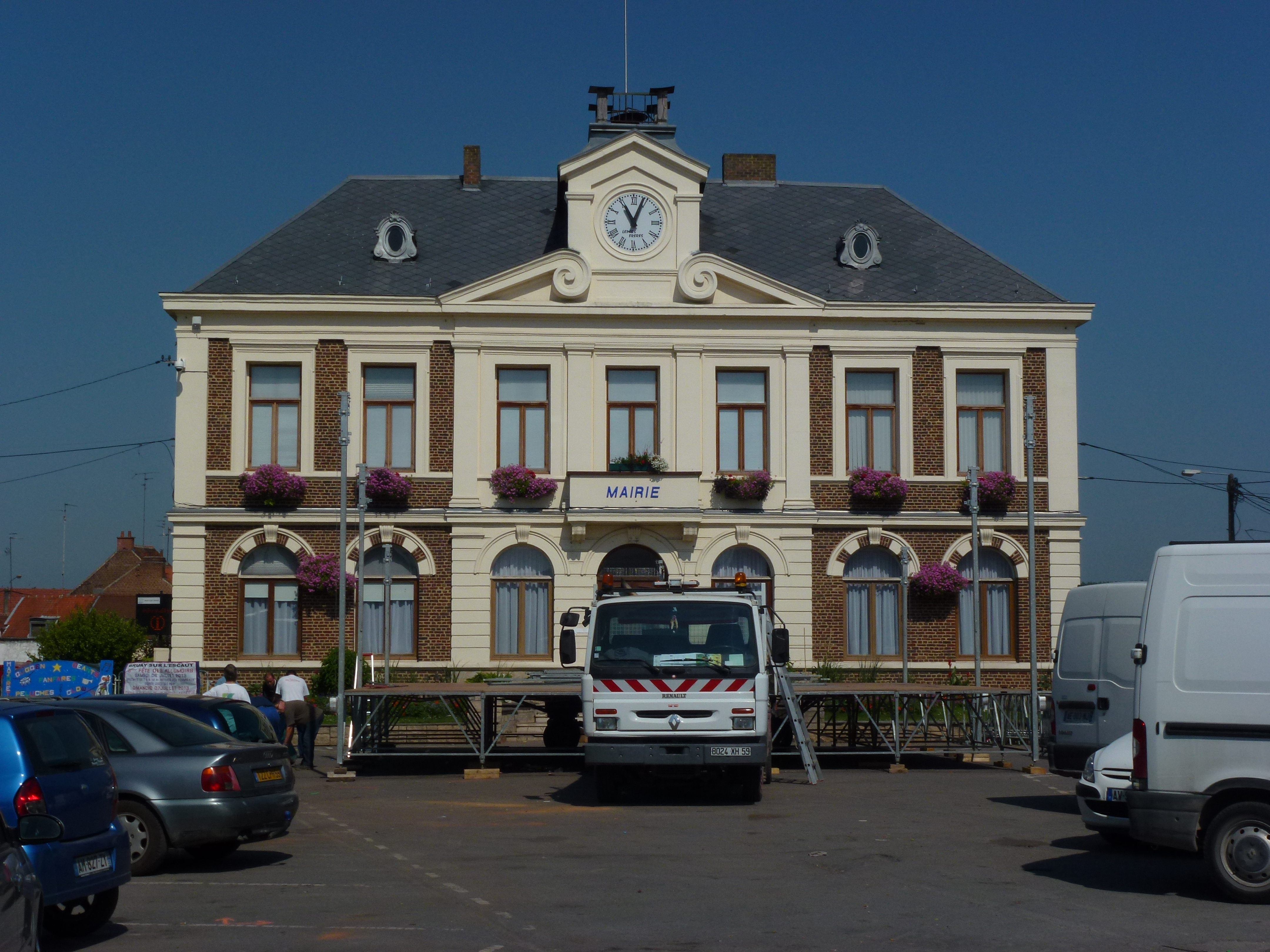 Bruay-sur-l'Escaut (Nord, Fr) mairie